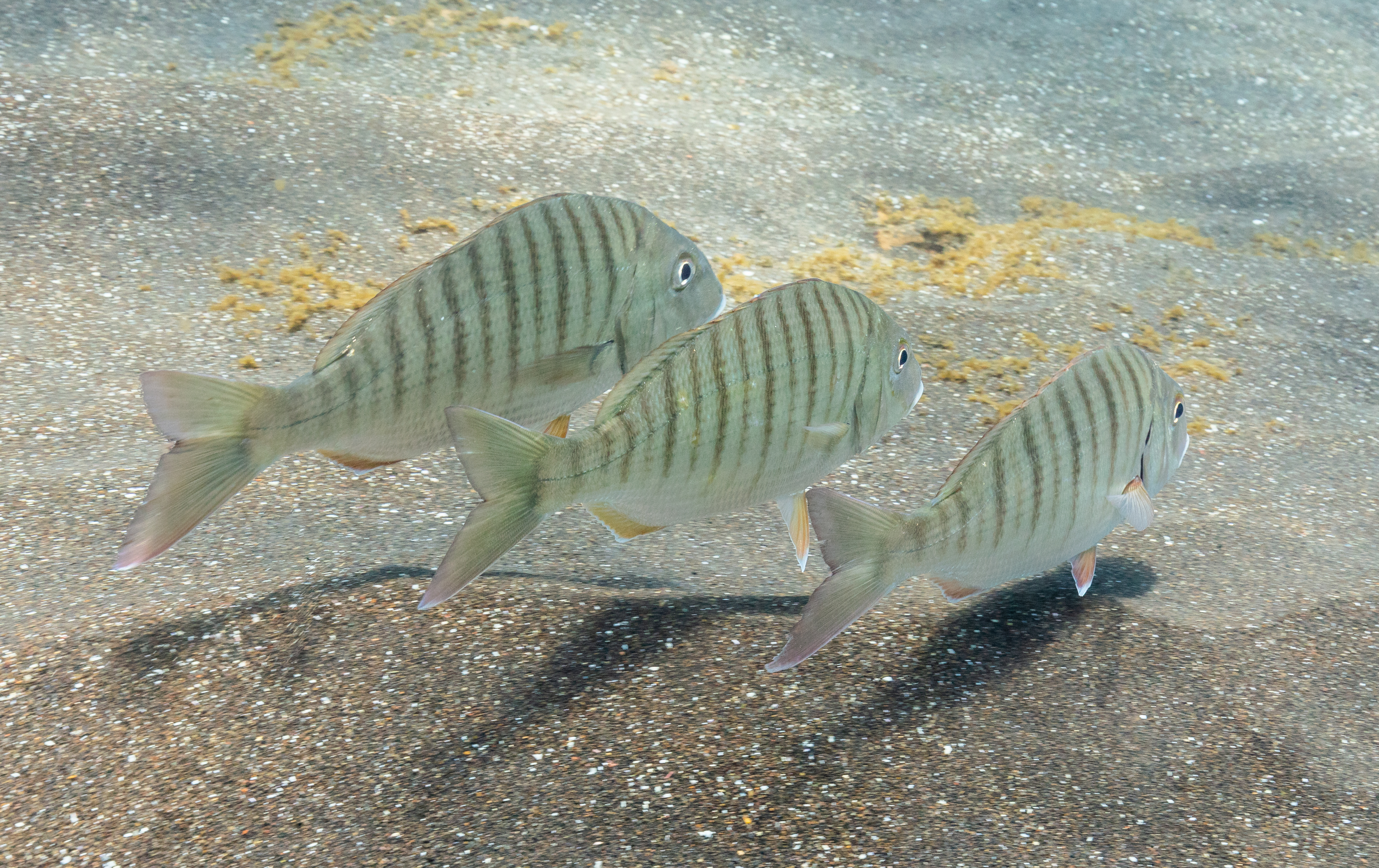 Sand steenbras (Lithognathus mormyrus), Madeira, Portugal